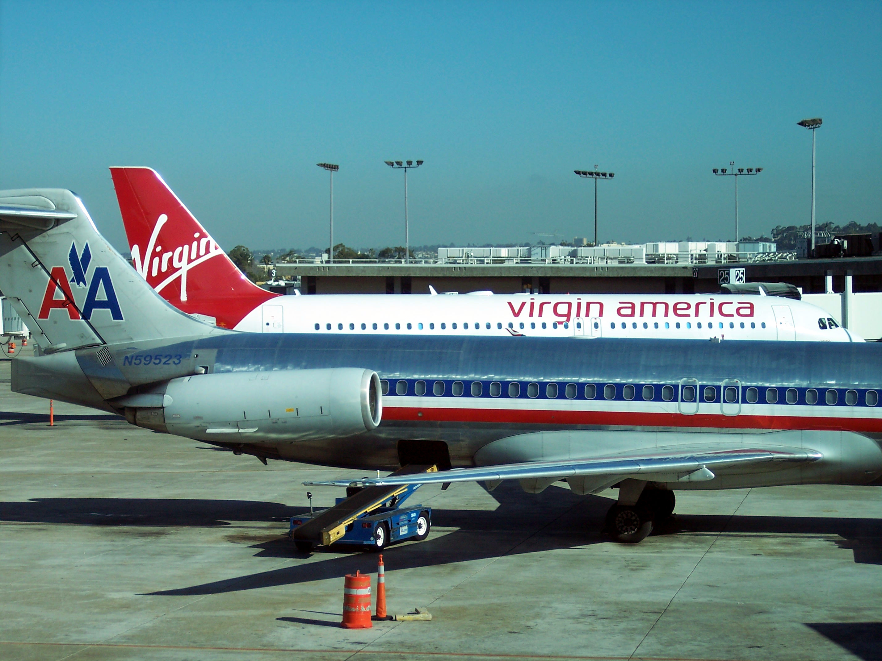 Picture of Virgin America and American Airlines (N59523) plane sitting at Terminal 2 SAN